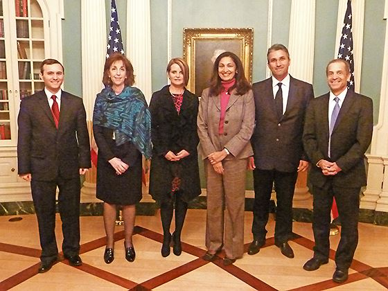 From left to right, Tomicah Tillemann, Senior Advisor for Civil Society and Emerging Democracies; Assistant Secretary of State for Western Hemisphere Affairs Roberta S. Jacobson; Committee to Protect Journalists awardee Janet Hinostroza of Ecuador; Acting Assistant Secretary of State for Democracy, Human Rights, and Labor Uzra Zeya; Committee to Protect Journalists awardee Nedim Sener of Turkey; and Deputy Assistant Secretary of State for European and Eurasian Affairs Mark Toner pose for a photo at the U.S. Department of State in Washington, D.C., on November 21, 2013. [State Department photo/ Public Domain]